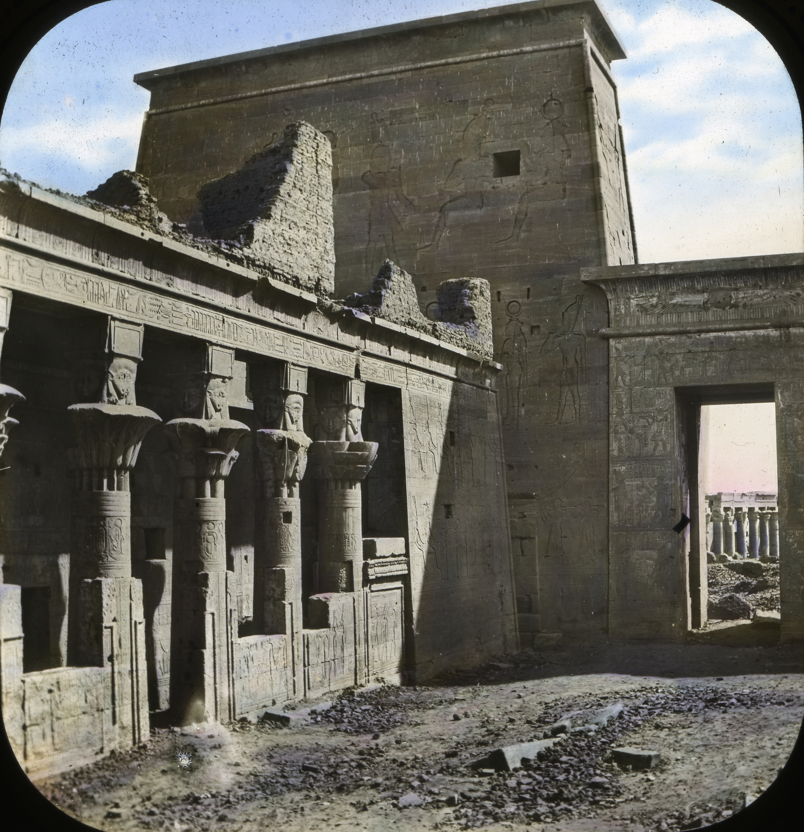 Lantern Slide Collection: Views, Objects: Egypt. Philae. [selected images]. View 12: Egypt - Philae. First court., n.d., T.H. McAllister, Manufaturing Optician, 49 Nassau St. N.Y. This slide colored by Joseph Hawkes. Brooklyn Museum Archives (S10.08 Philae, image 9660).